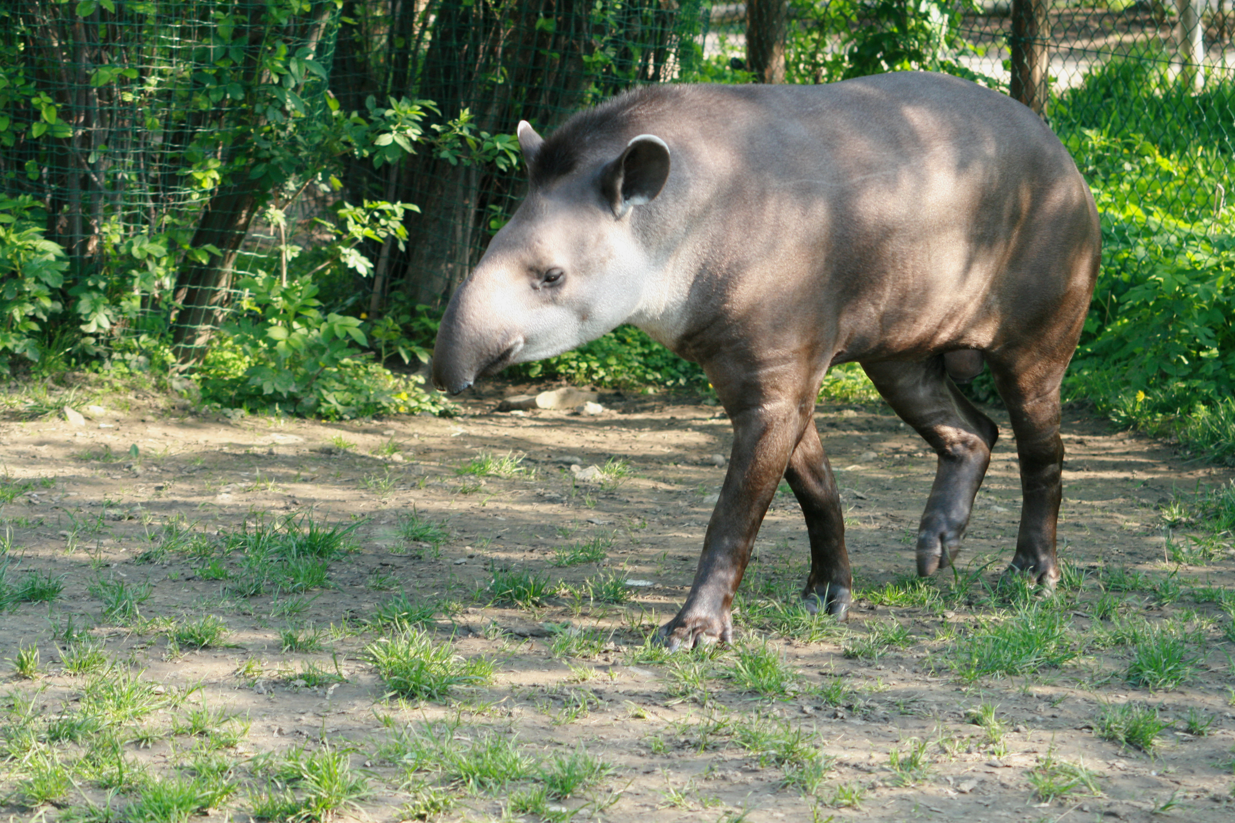 Brazilian Tapir, Tapirus terrestris in ZOO Praha, Czech Republic